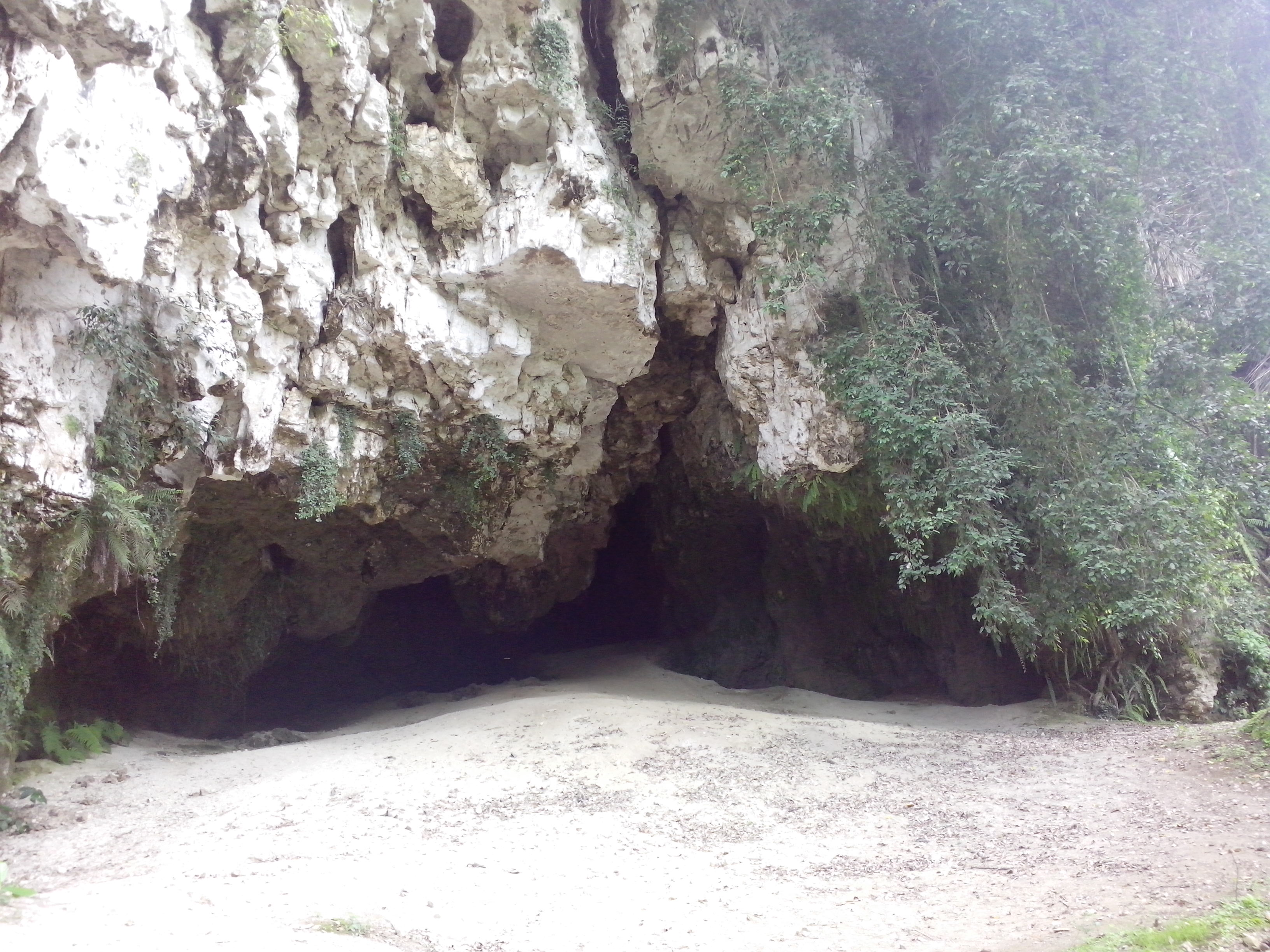 Bird Cave or Leang Burung is one of prehistoric caves found in Maros.